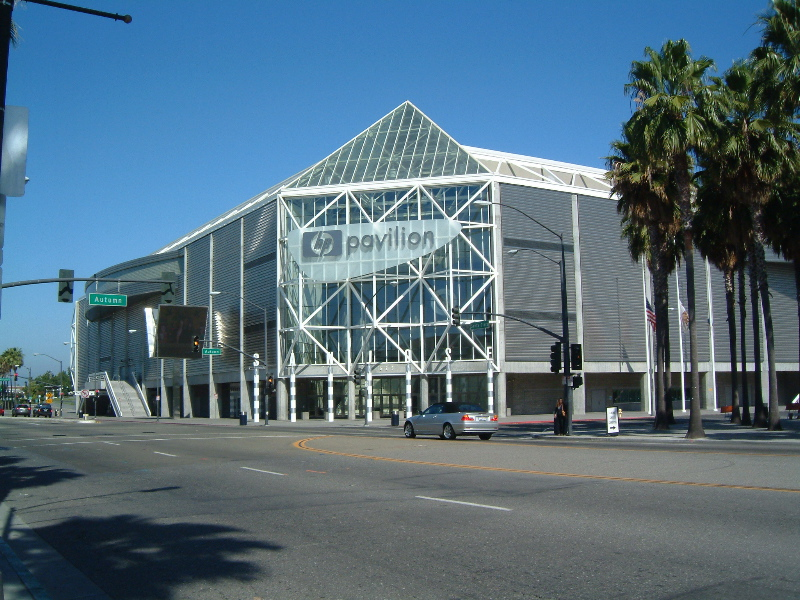 The HP Pavilion at San Jose in San Jose, California, home of the San Jose Sharks and commonly known as the Shark Tank. Photo by John Pozniak, July 5, en:2004.